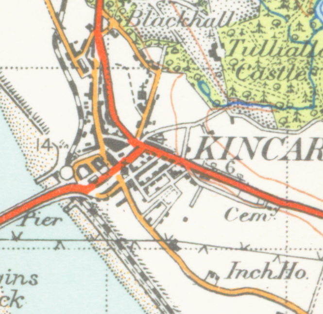 map of Kincardine 1 inch to the mile scale scanned at 600 DPI